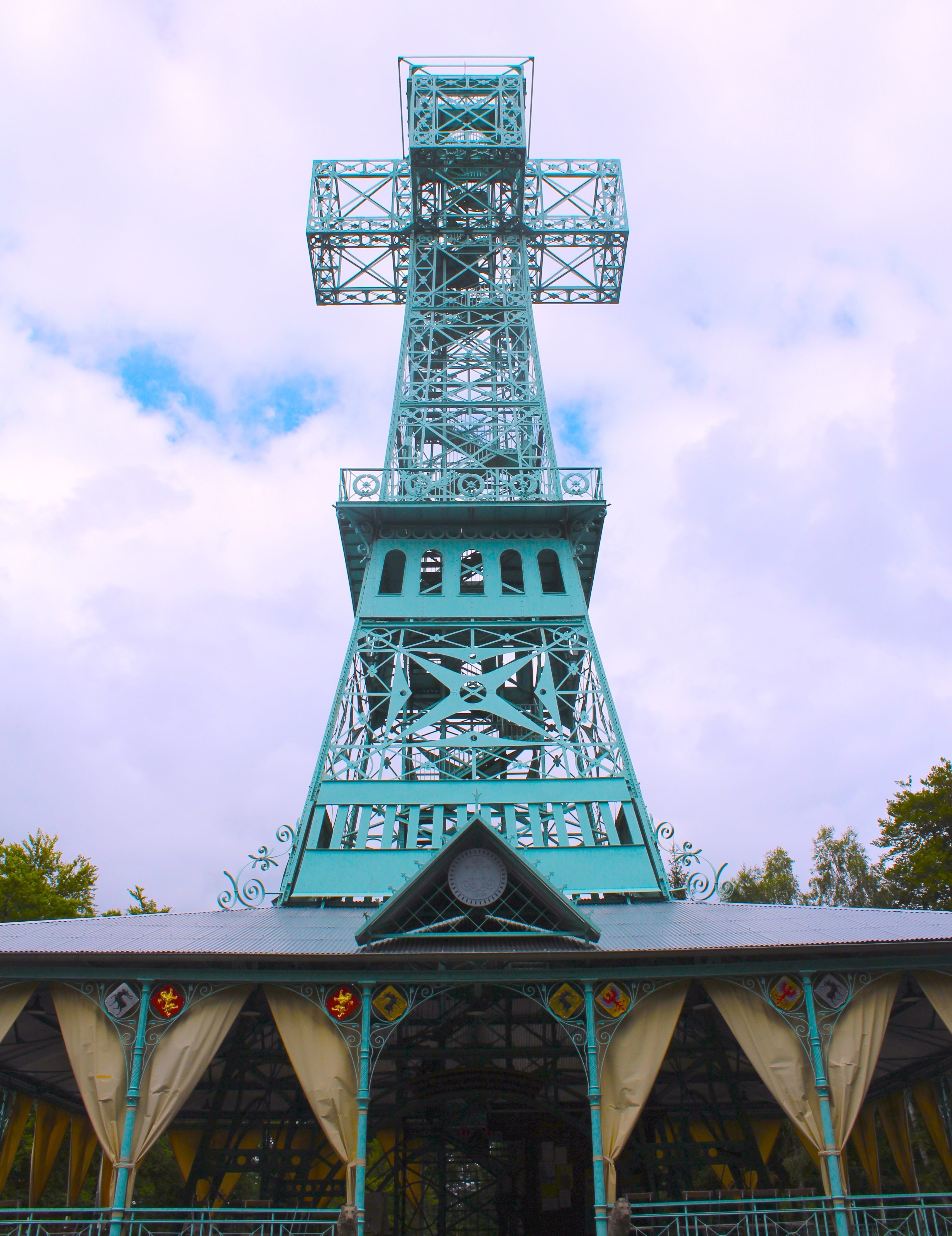 Joseph Cross (tower) in Saxony-Anhalt, Germany